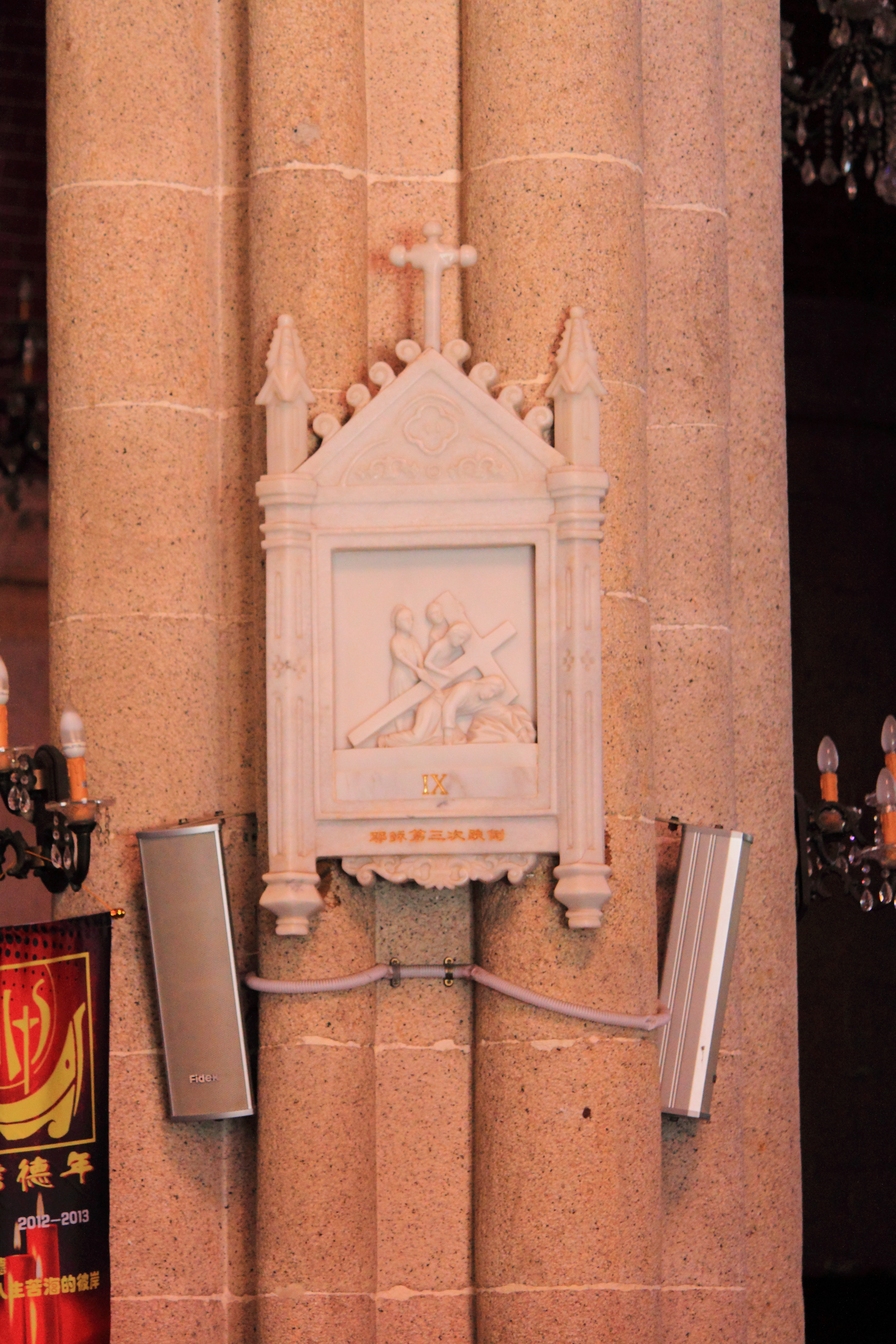 Sacred Heart Cathedral of Guangzhou，in Guangzhou, Guangdong, China.